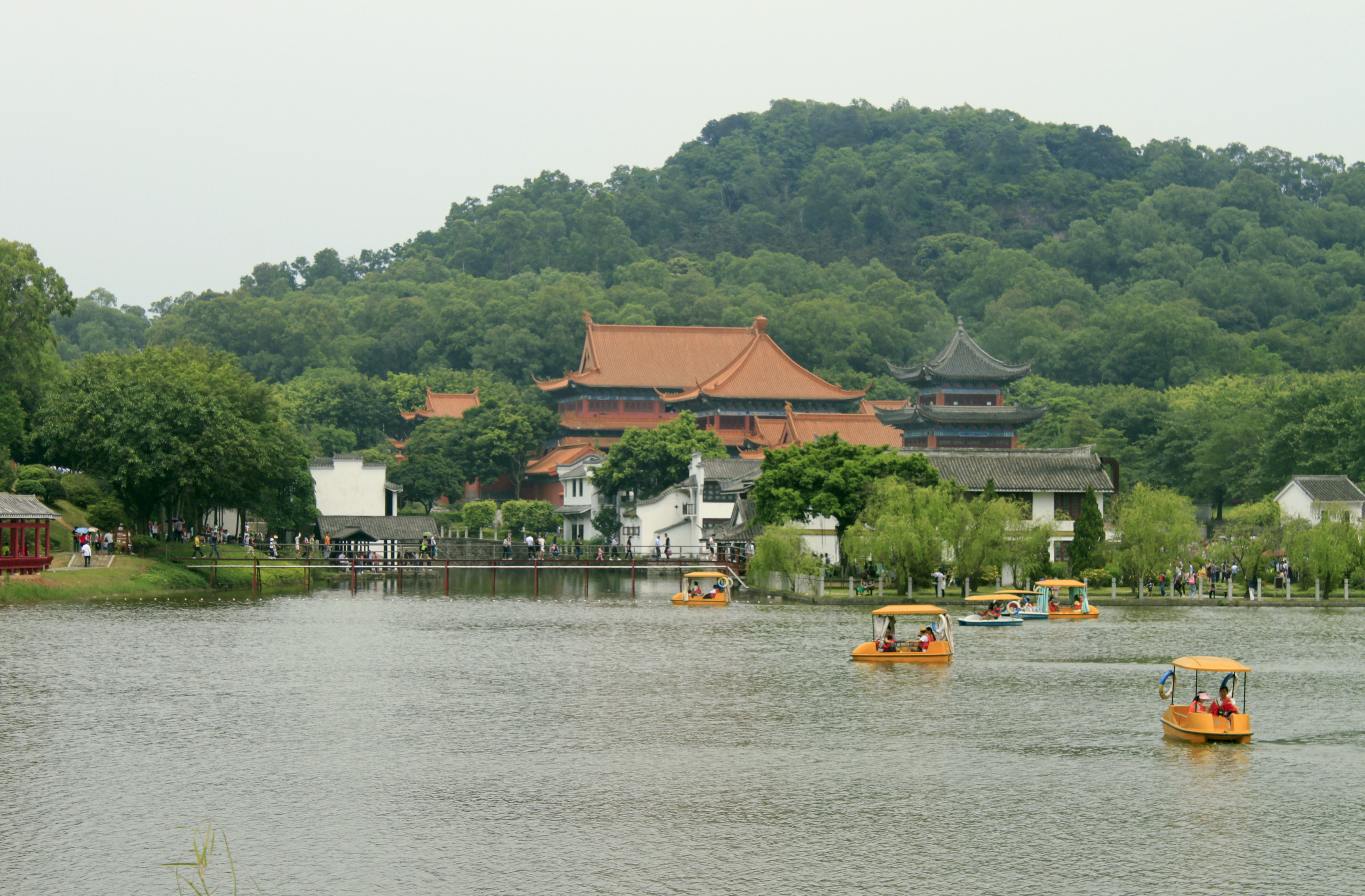 Lake and Water Town and Palace in CCTV Nanhai Studio, Foshan, Guangdong, China. 中文（中国大陆）: 广东省佛山市中国中央电视台南海影视城内的湖泊、天朝宫殿区、江南水乡区。